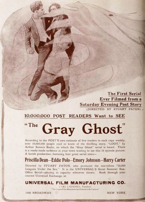 Ad for the American film serial The Gray Ghost (1917), on the inside front cover of the August 25, 1917 Exhibitors Herald.